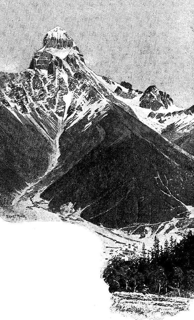 Mt Ushba and village Mazeri in Svaneti